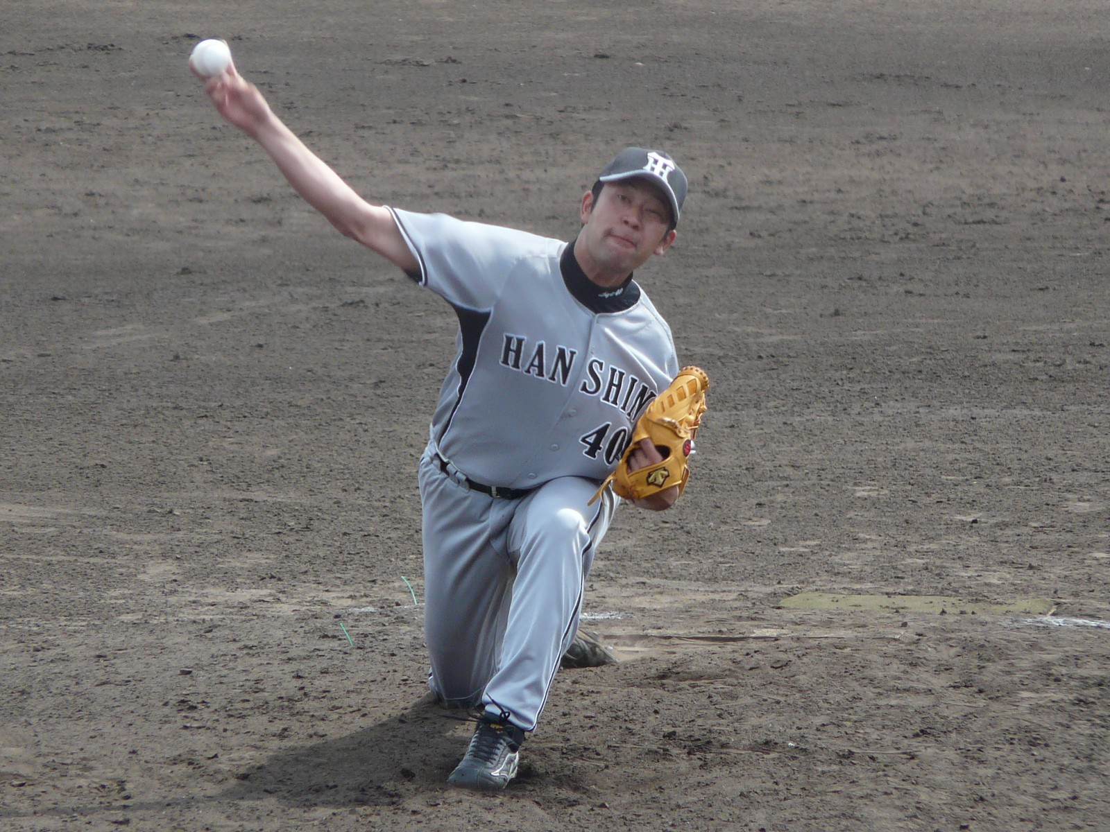 Hanshin Tigers/Masashi Sajikihara